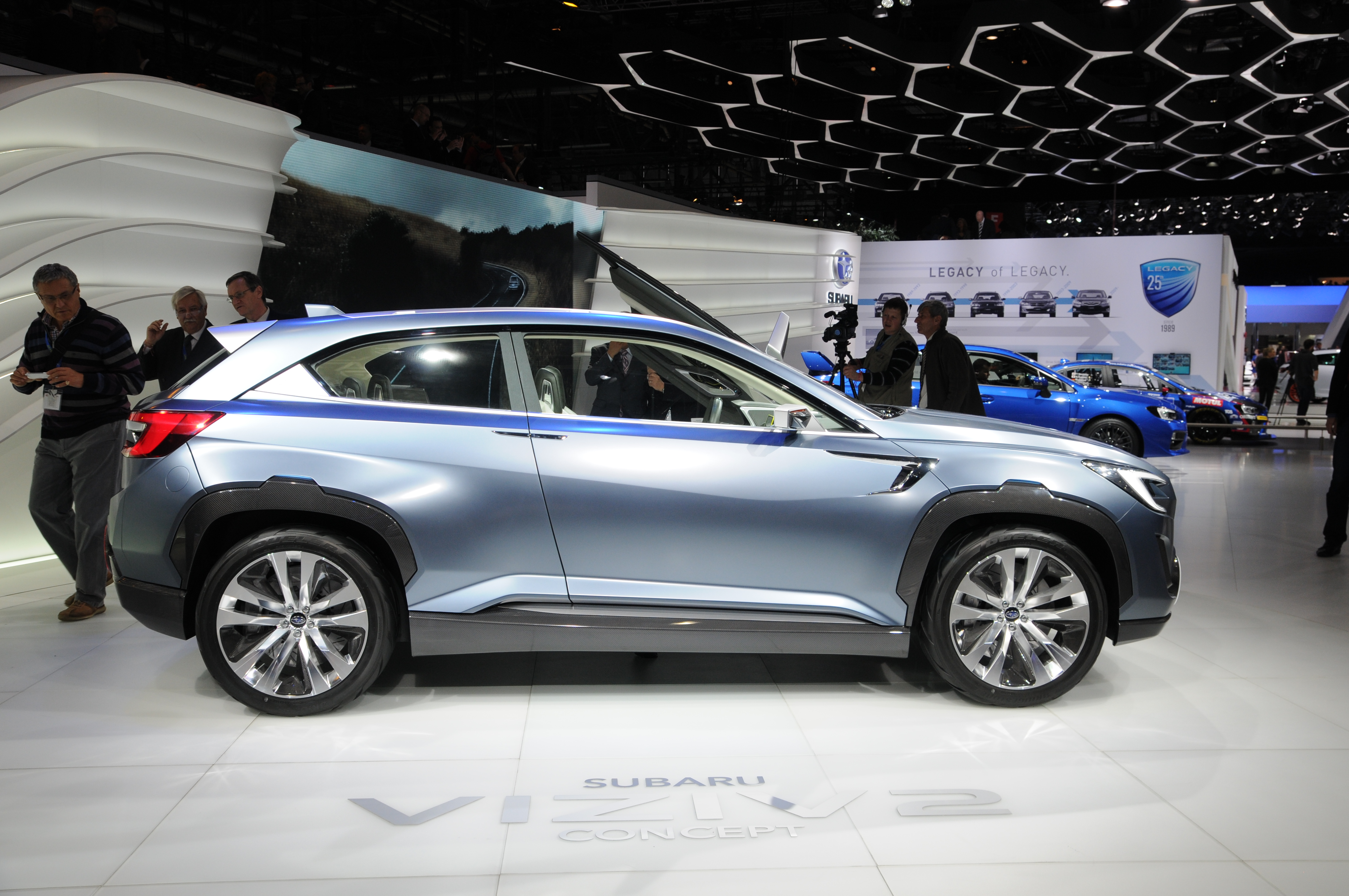 Geneva Motor Show 2014 (photo taken on the first press day)